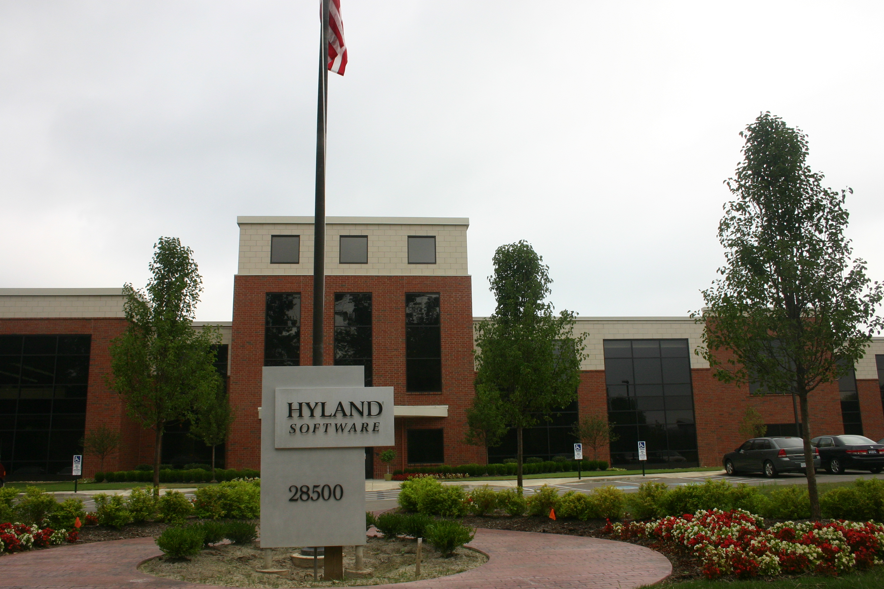 Hyland Software's corporate office after a major building expansion